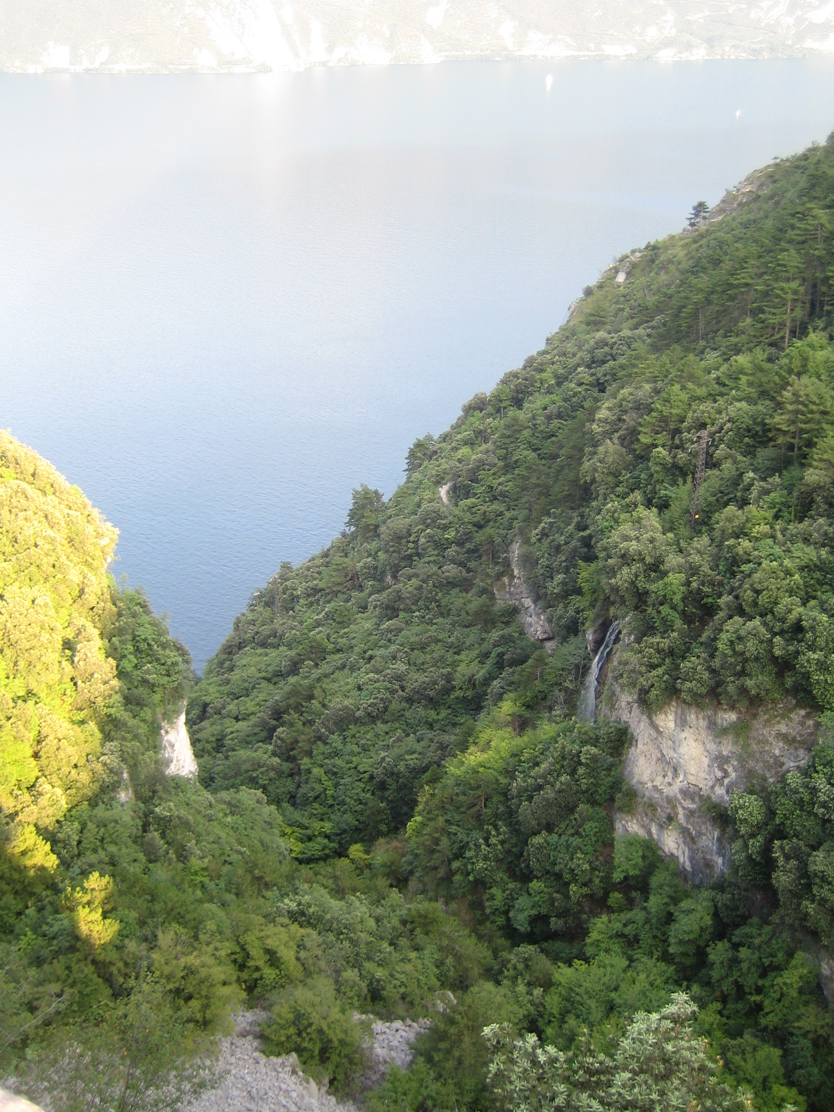 Ponale Valley down to lake Garda from Ponale highway